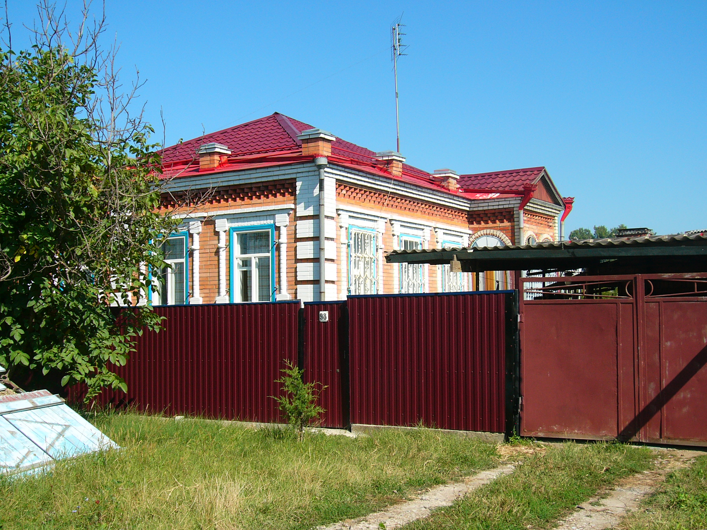 typical house in Afipskiy village, Krasnodarskiy kray, Russia